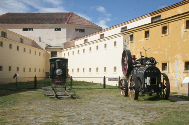 Museo Marítimo de Ushuaia. Patio interior Vagon y Locomovil